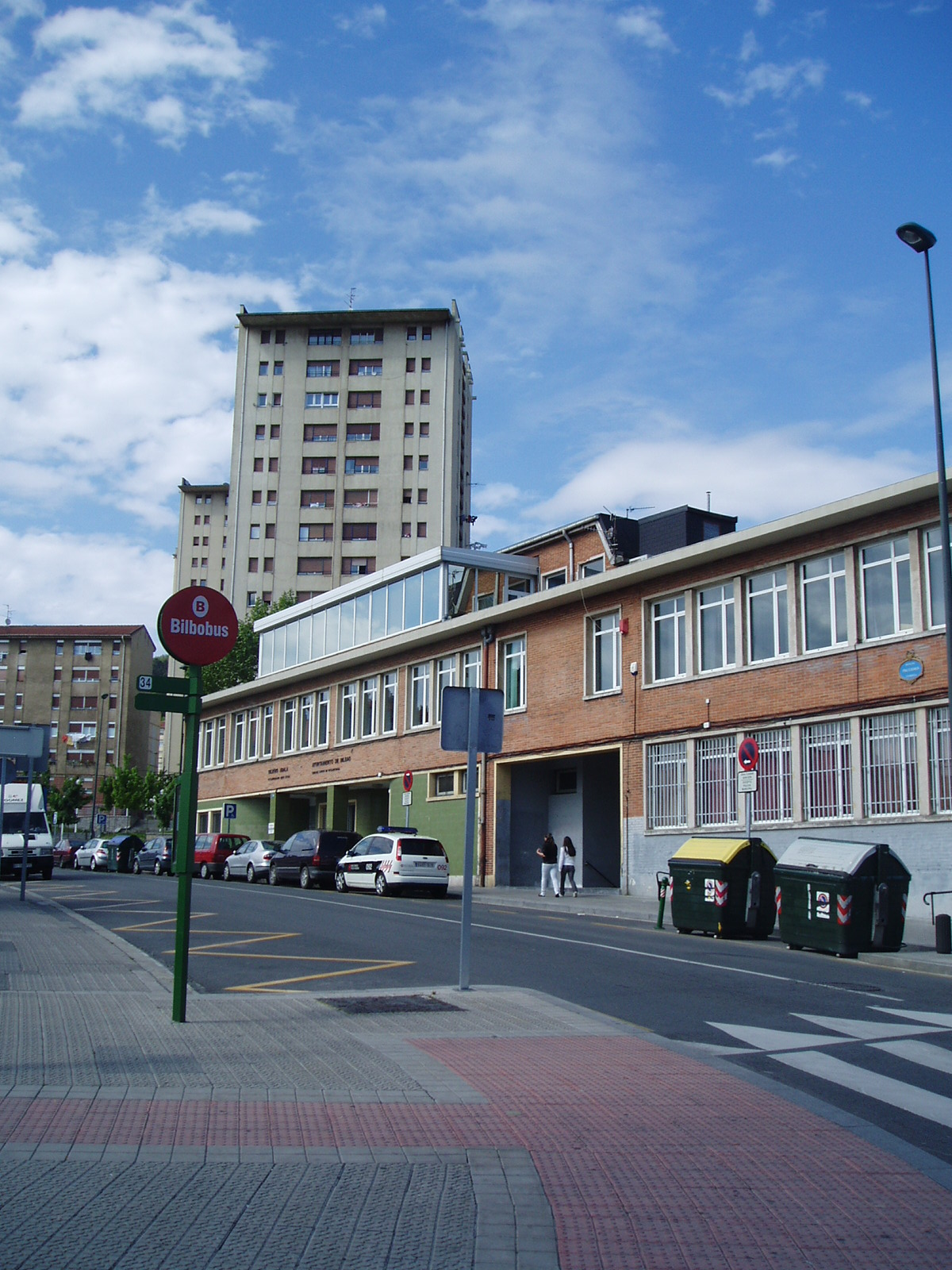 Otxarkoaga's (Bilbao) community center's building.